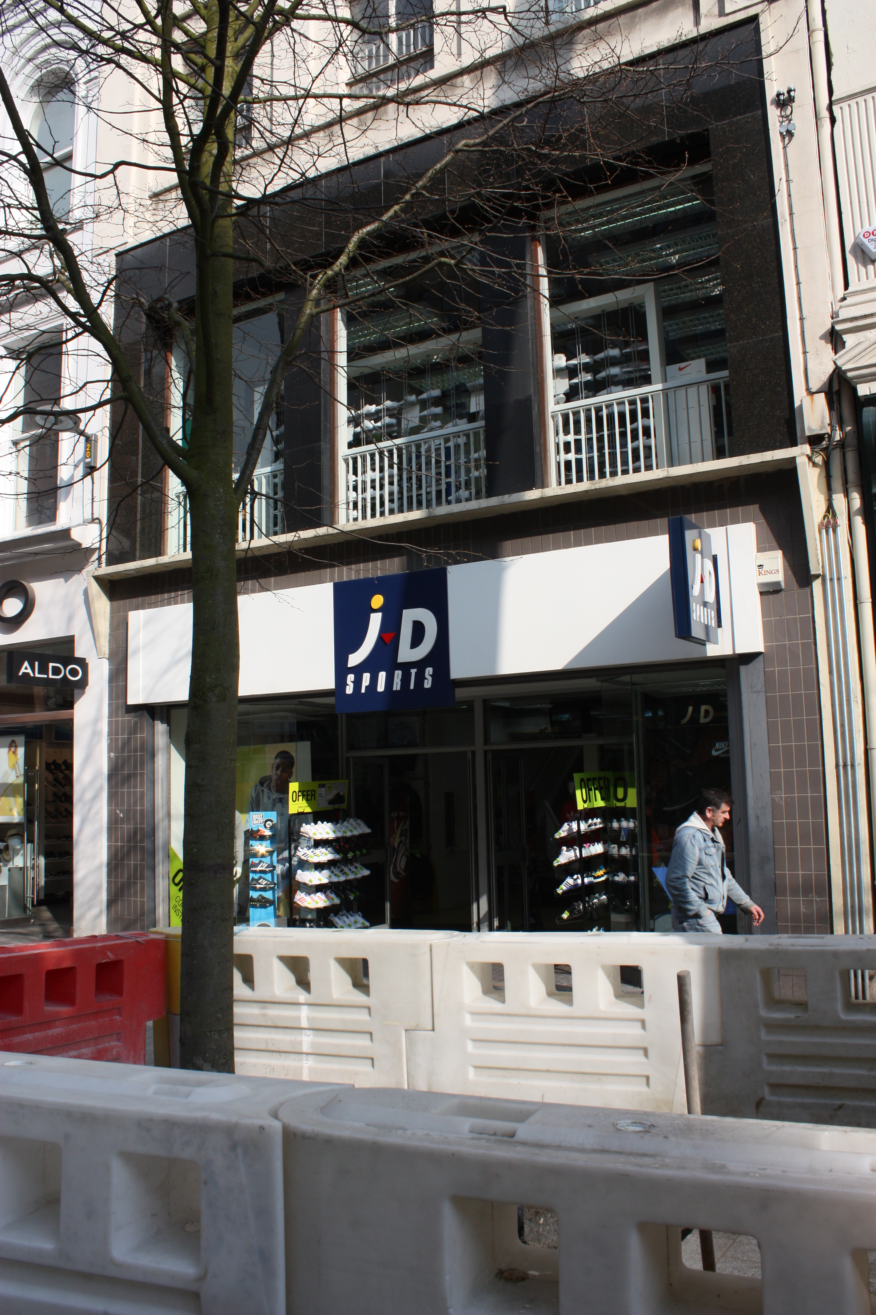 JD Sports, Donegall Place, Belfast, Northern Ireland, March 2011